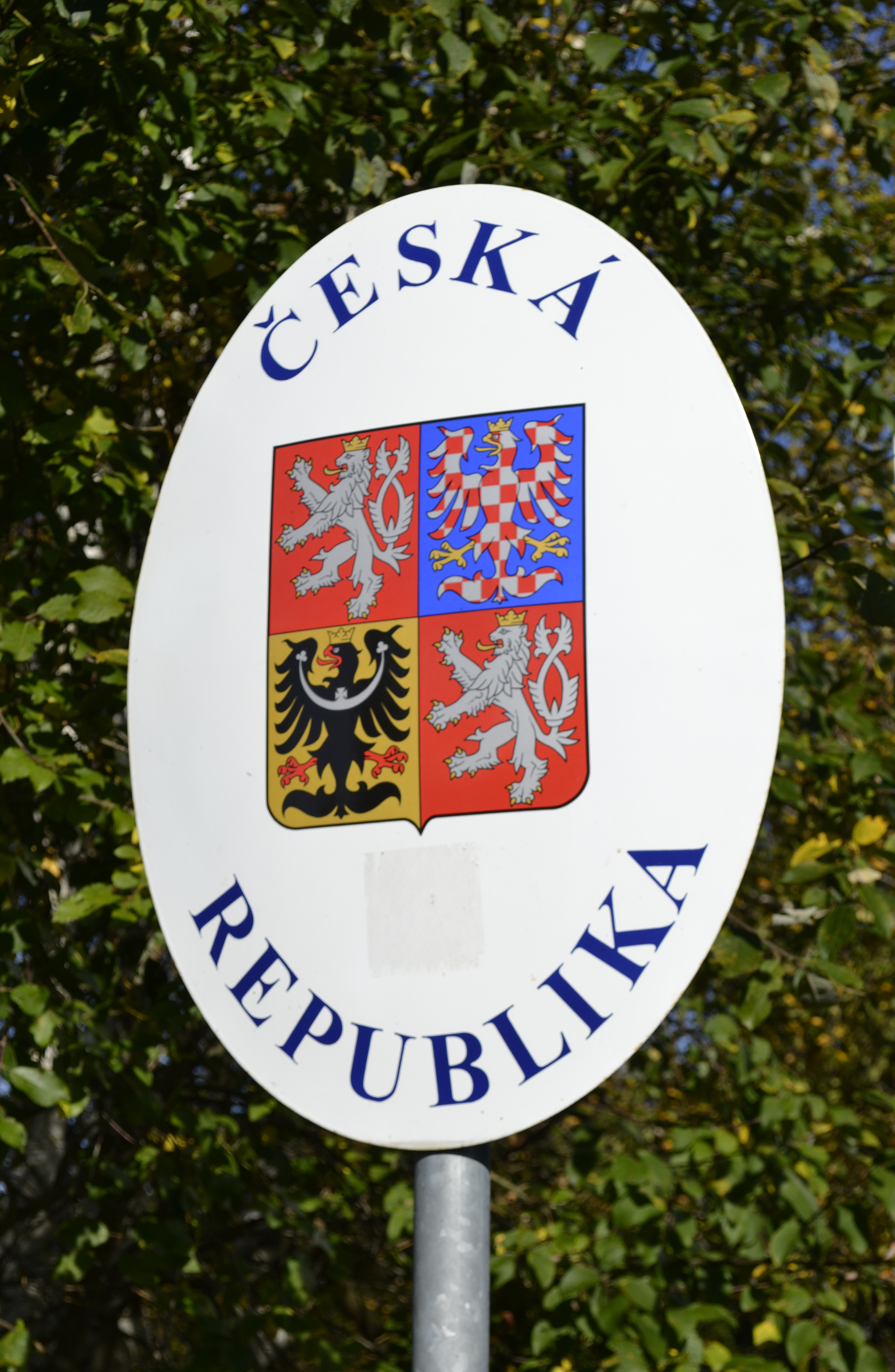 Border sign of the Czech Republic in Nové Údolí.